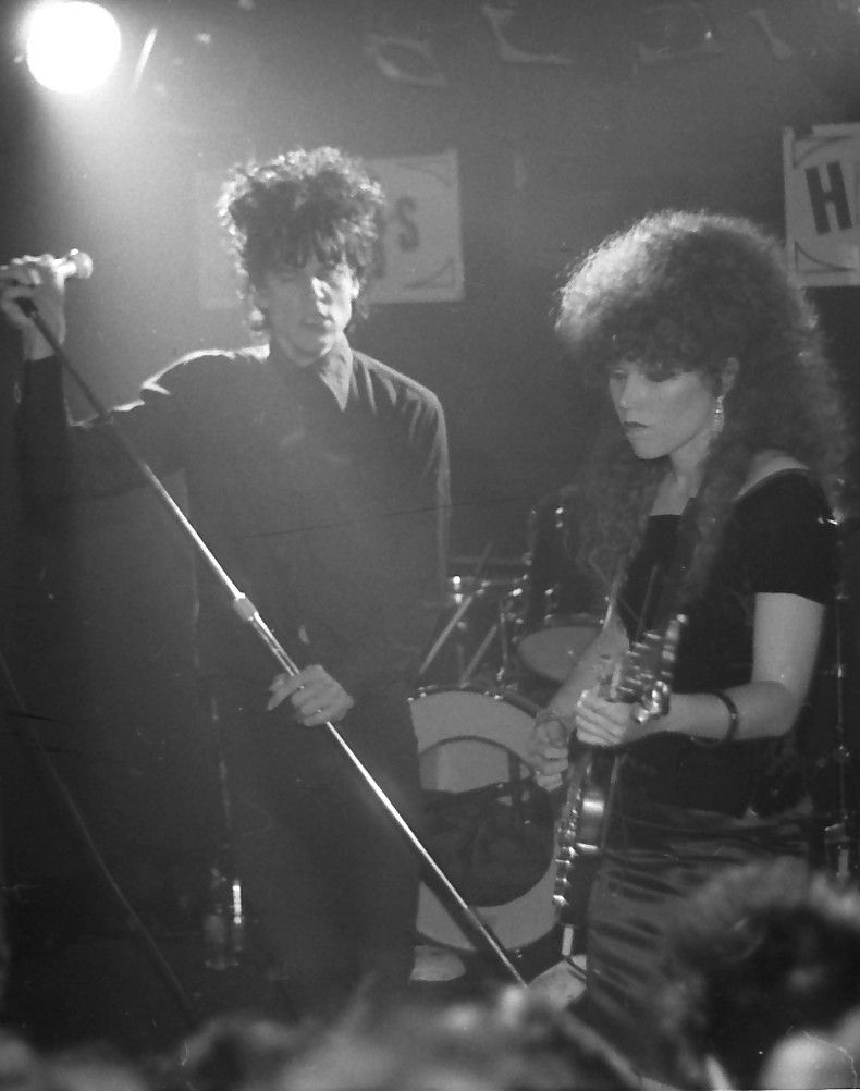 The Cramps (Lux Interior on vocals, Poison Ivy on guitar) perform at Larry's Hideaway in Toronto, June 14, 1982